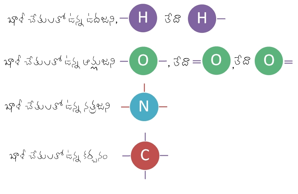 This drawing illustrates the meaning of valency in chemistry. Atoms of Hydrogen, Oxygen, Nitrogen and Carbon are shown respectively with 1, 2, 3 and 4 'hands' or bonds. The captions are in Telugu